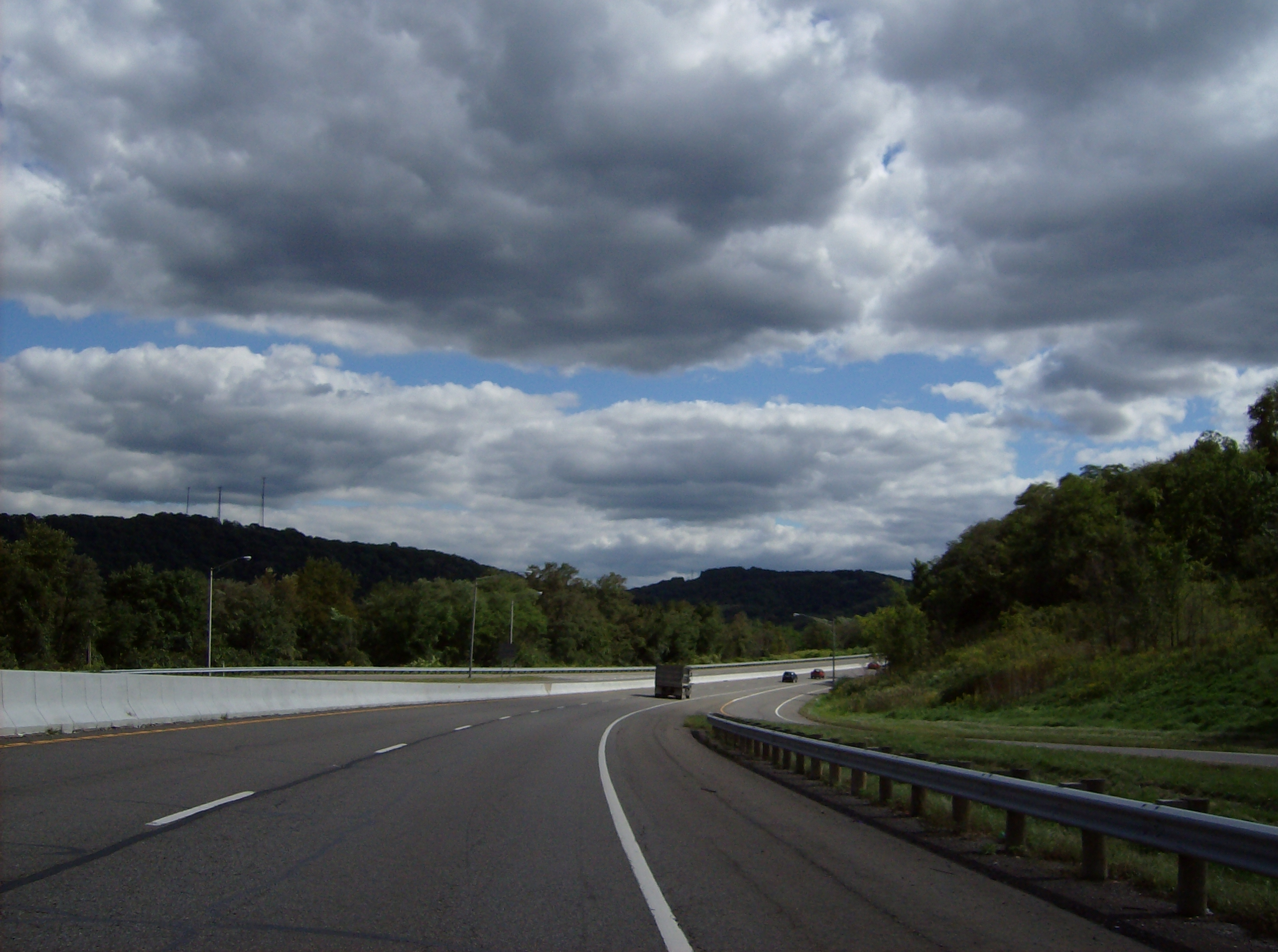 Along southbound State Route 7 in southern Knox Township, Jefferson County, Ohio, United States.